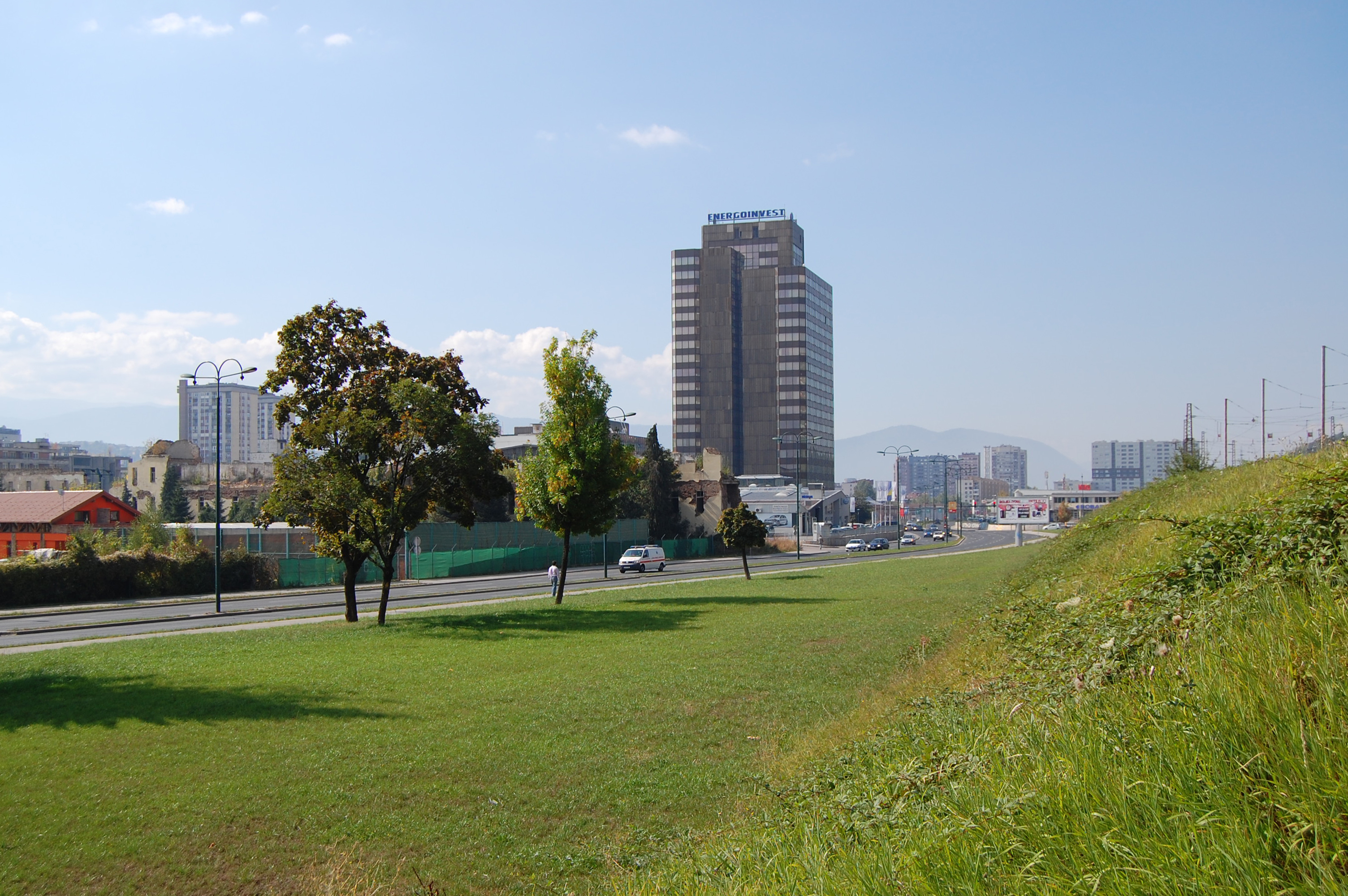 Energoinvest Corporate Headquarters